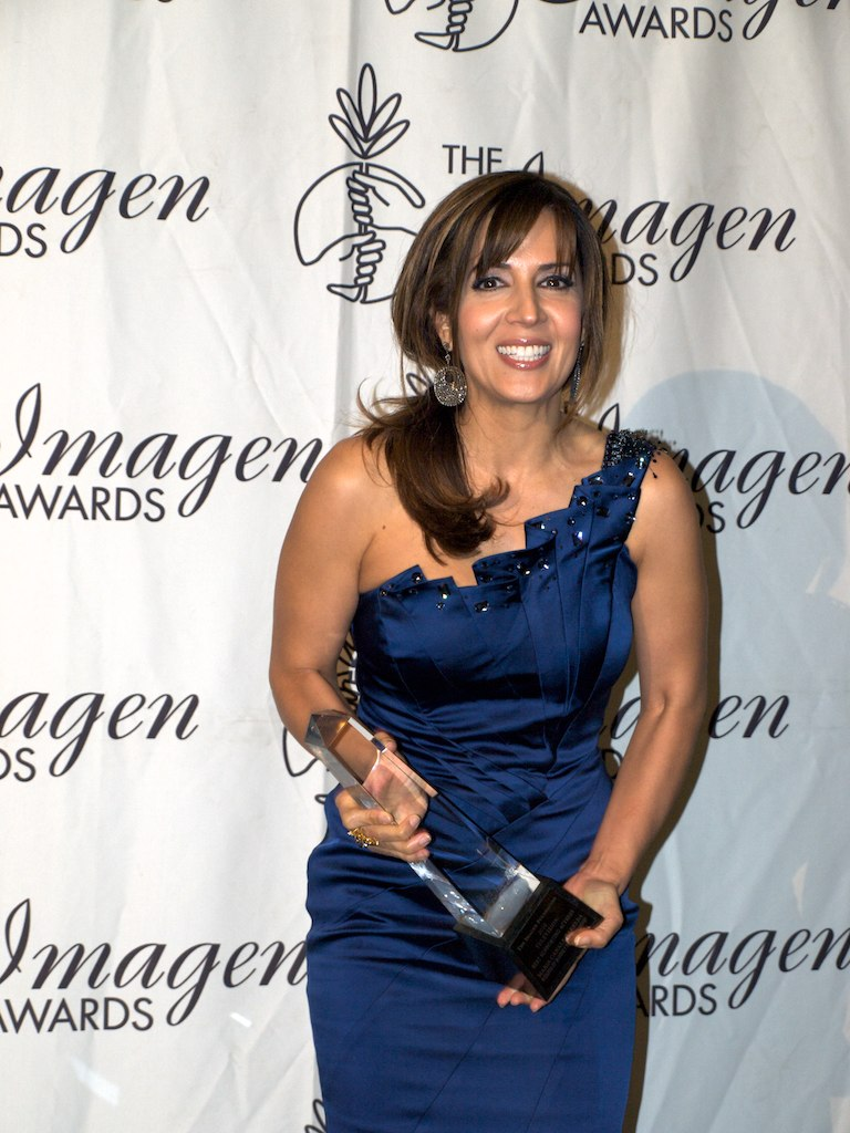 Maria Canals-Barrera 2010 Imagen Foundation Awards